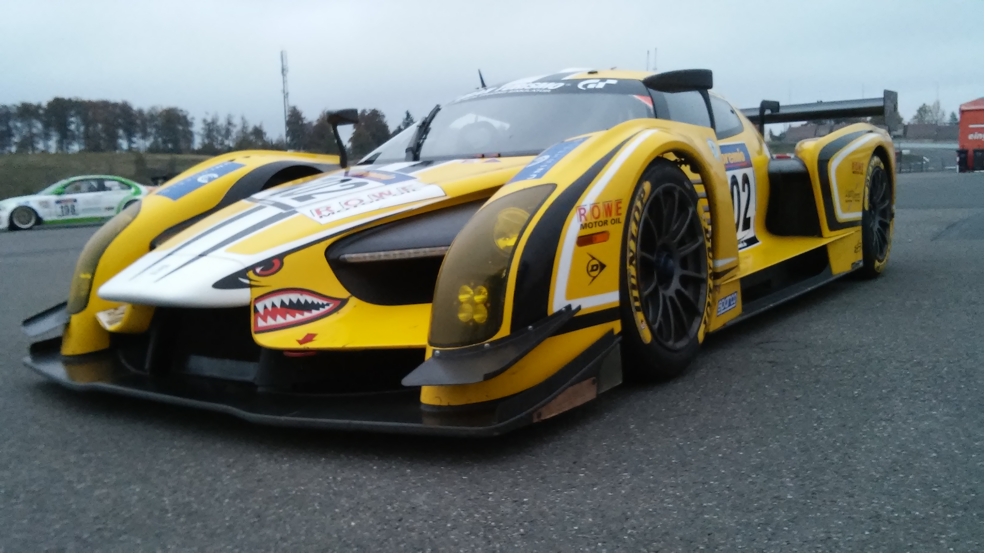 The Scuderia Cameron Glickenhaus after the VLN ROWE DMV 250-Meilen-Rennen 2015 at the Nurburgring Nordschleife.